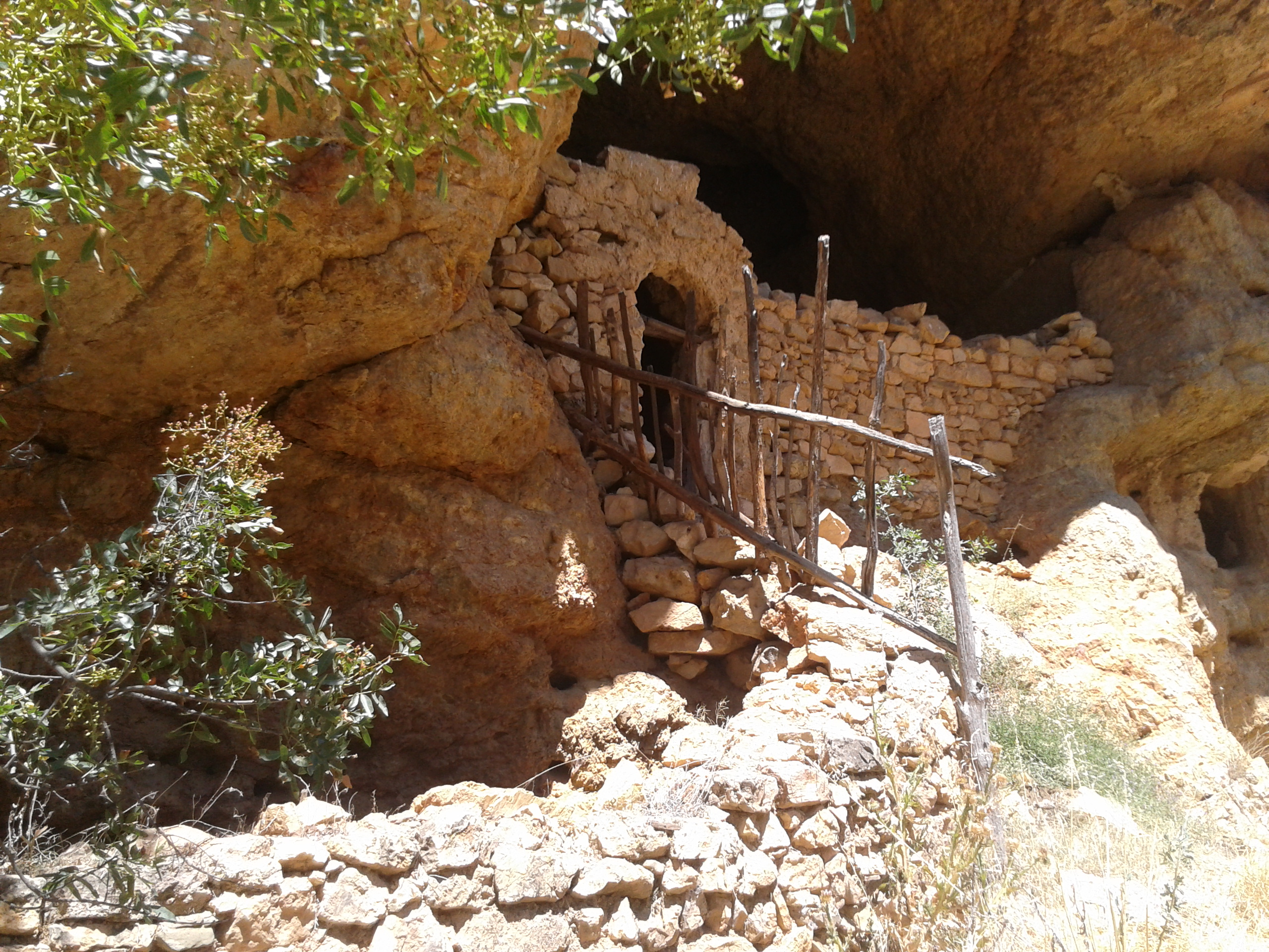 Natural Cave transformed in Paridera or Sheep Shelter.